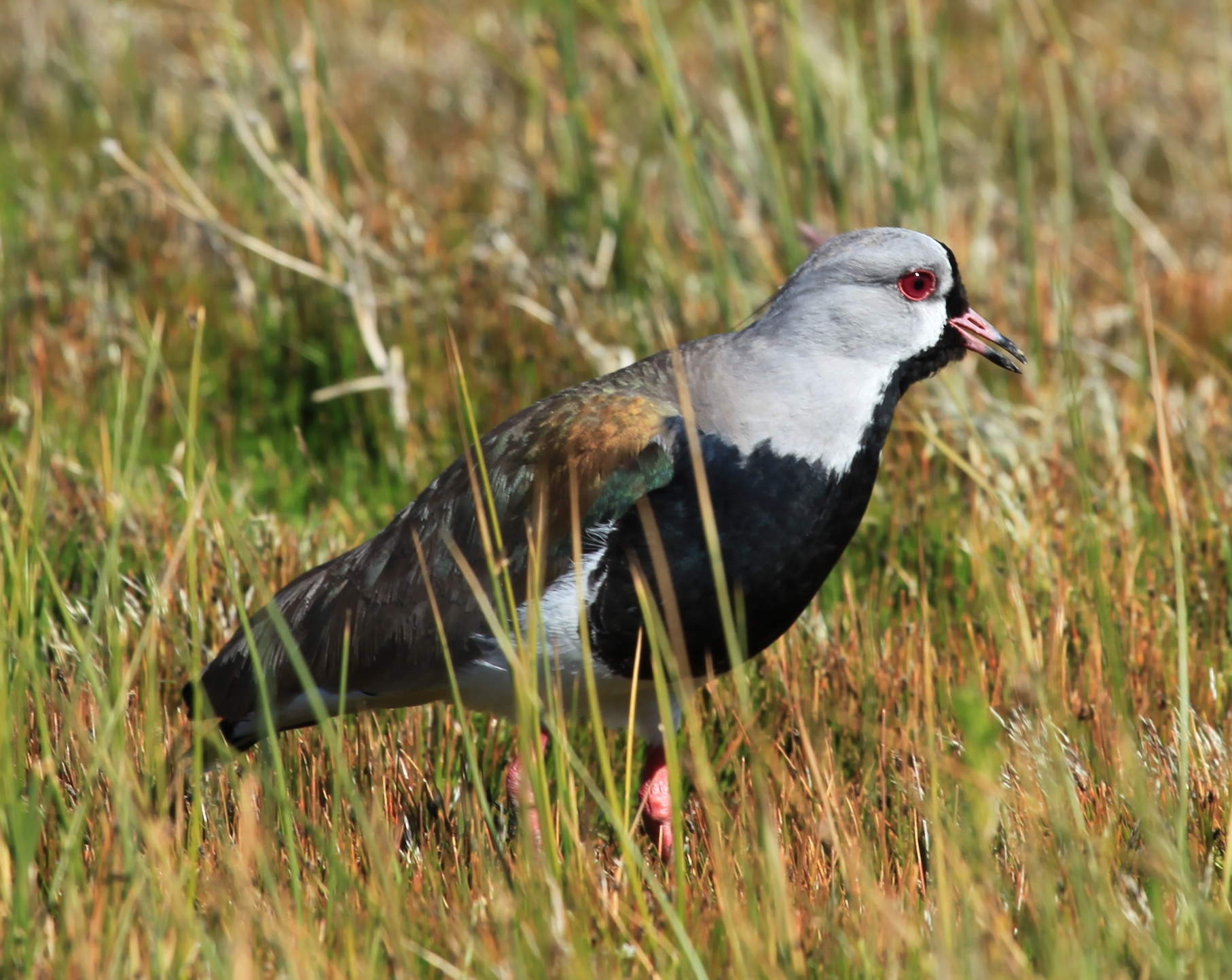 Photographed at the Laguna Nímez Reserve in El Calafate, Argentina.